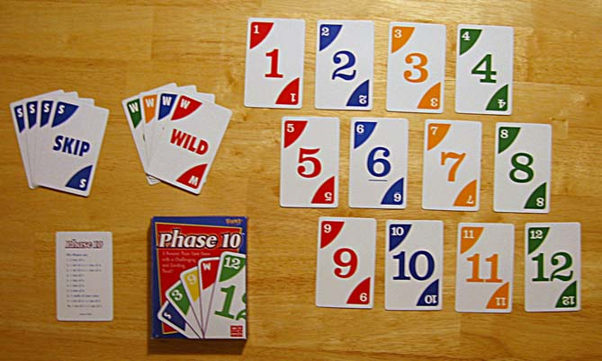 A picture of the cards in the game Phase 10.